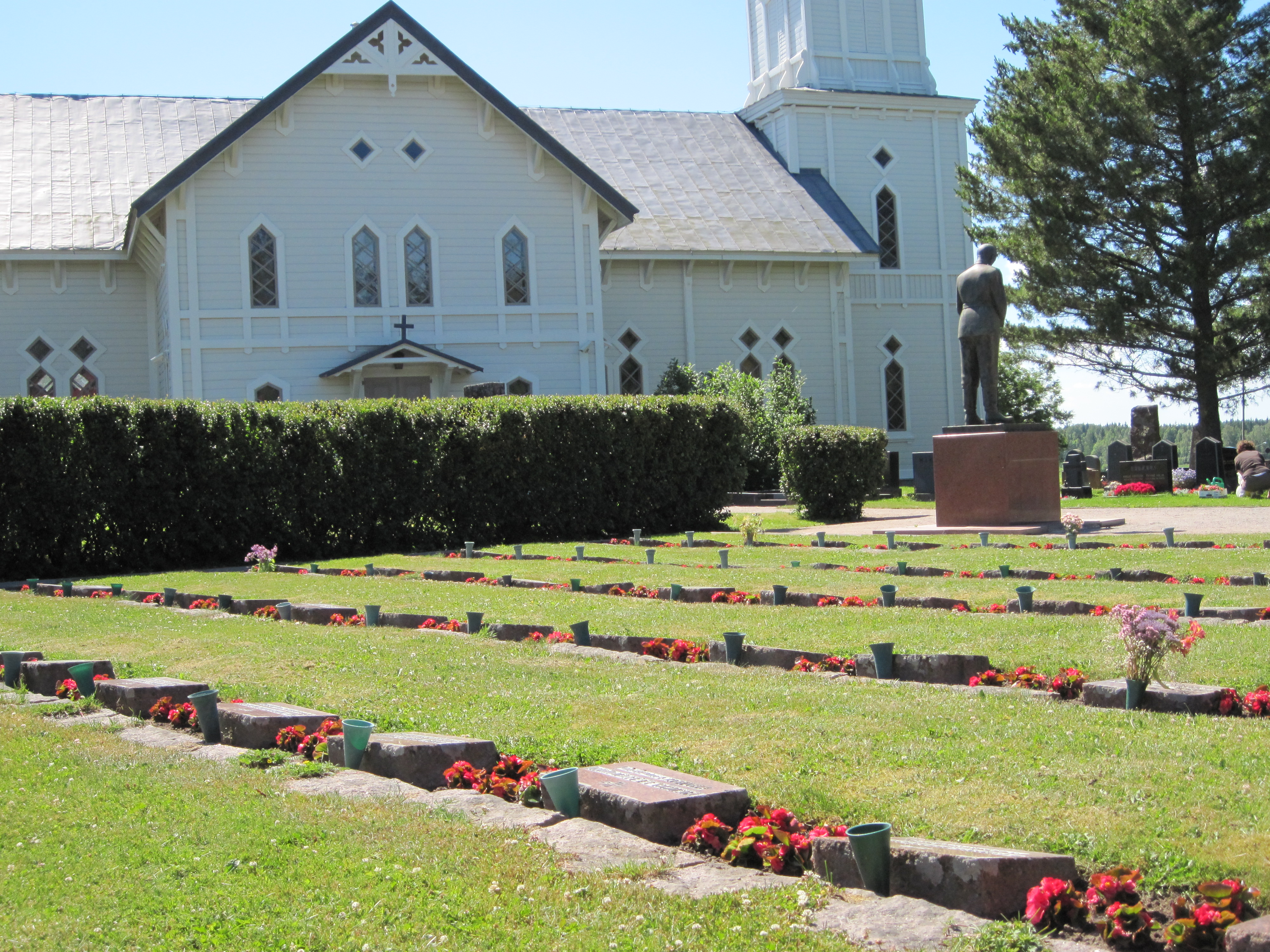 Kauvatsa Church in Kokemäki, Finland. Built in 1879. Architect: C. J. von Heideken. Military cemetery in the foreground.